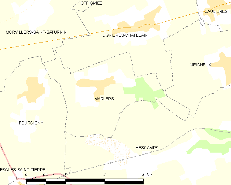 Map of French municipality Marlers